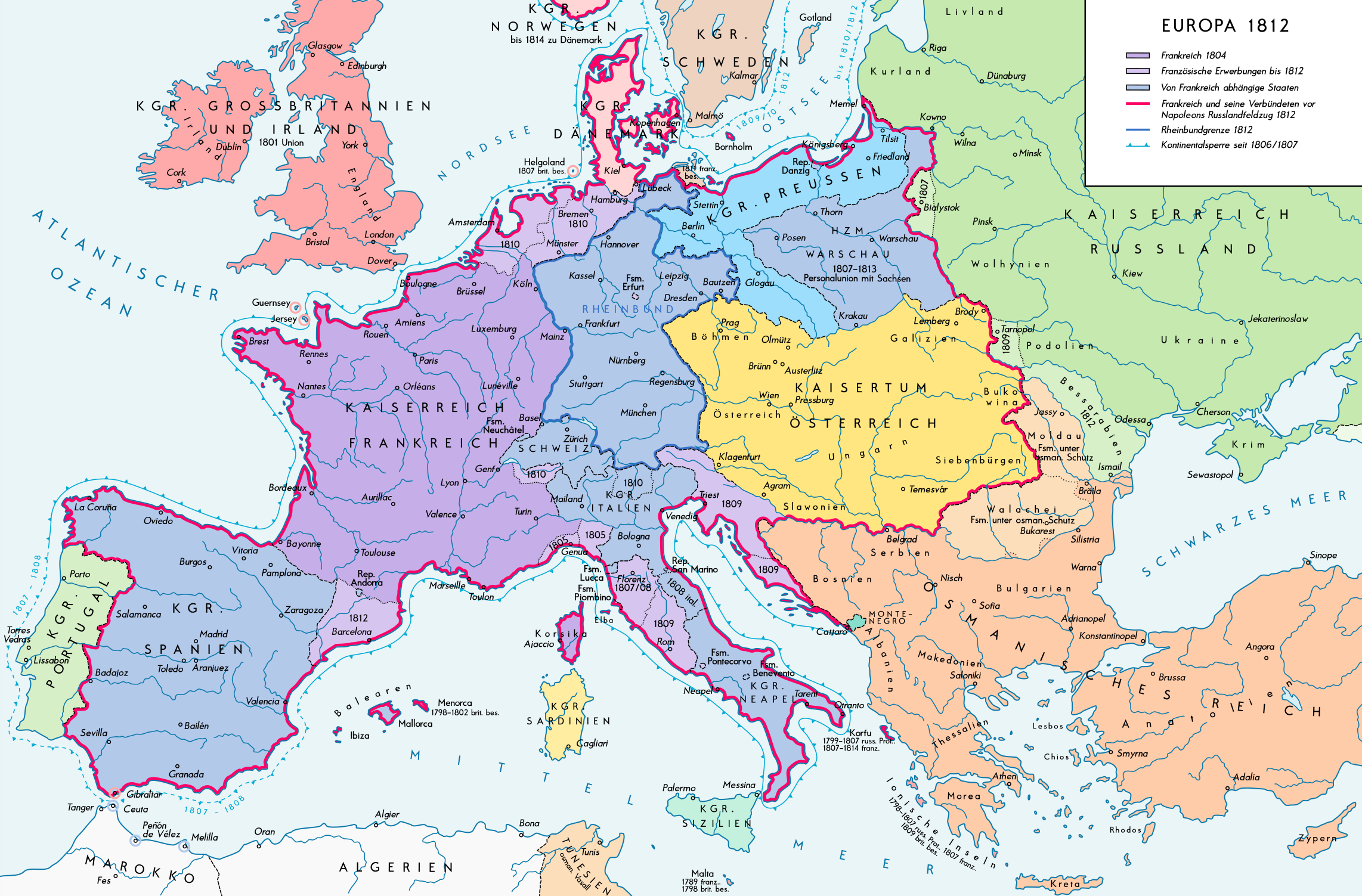 Europe in 1812. Political situation before Napoleon's Russian Campaign.